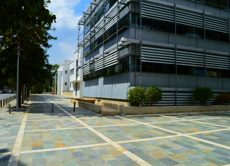 Cyprus House of Representantives Nicosia Republic of Cyprus